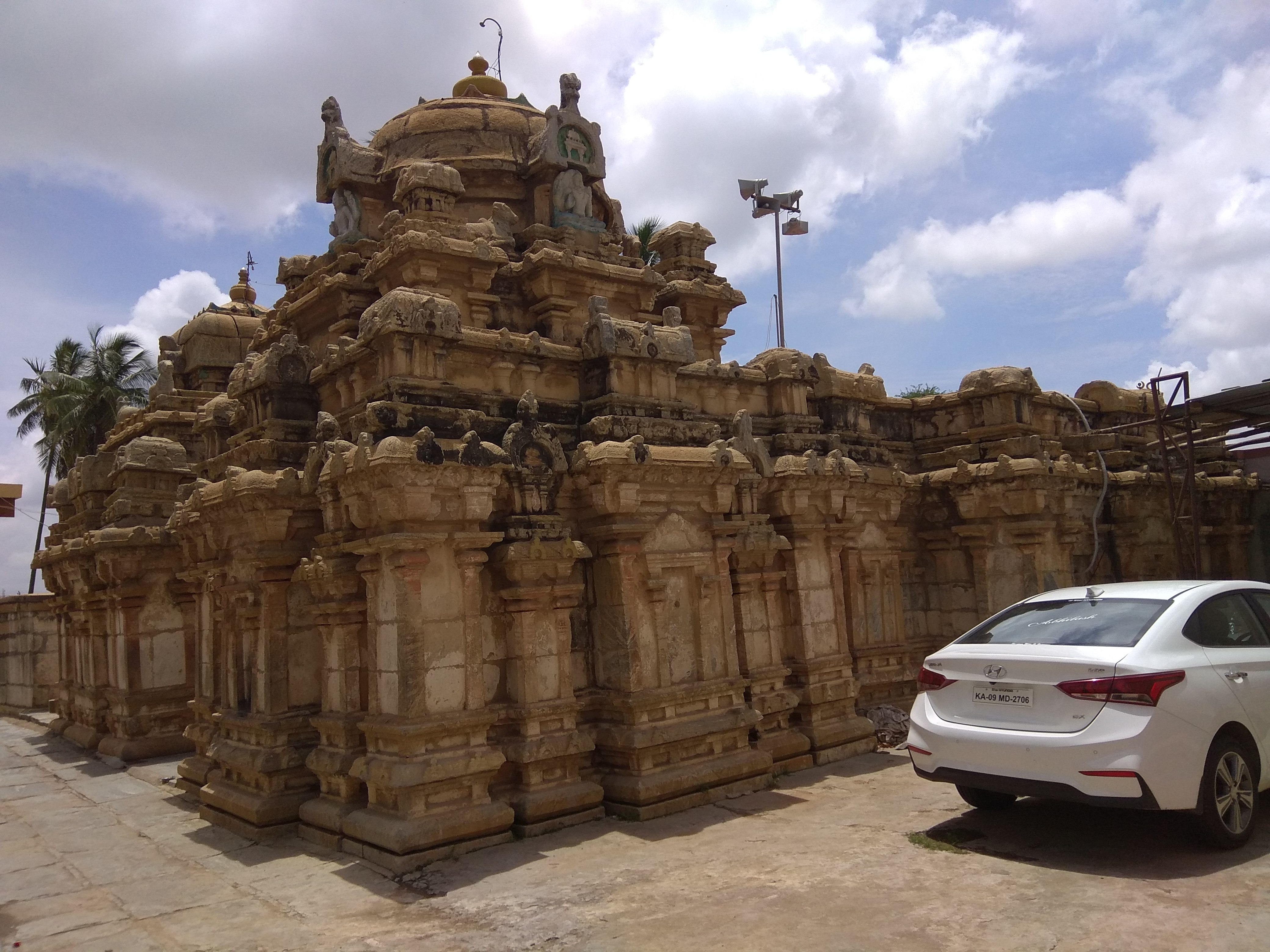 The Nageshvara temple complex photo(also spelt Nagesvara and called Naganatheshvara locally) is located in Begur, a small town within the Bangalore urban district of Karnataka state, India.